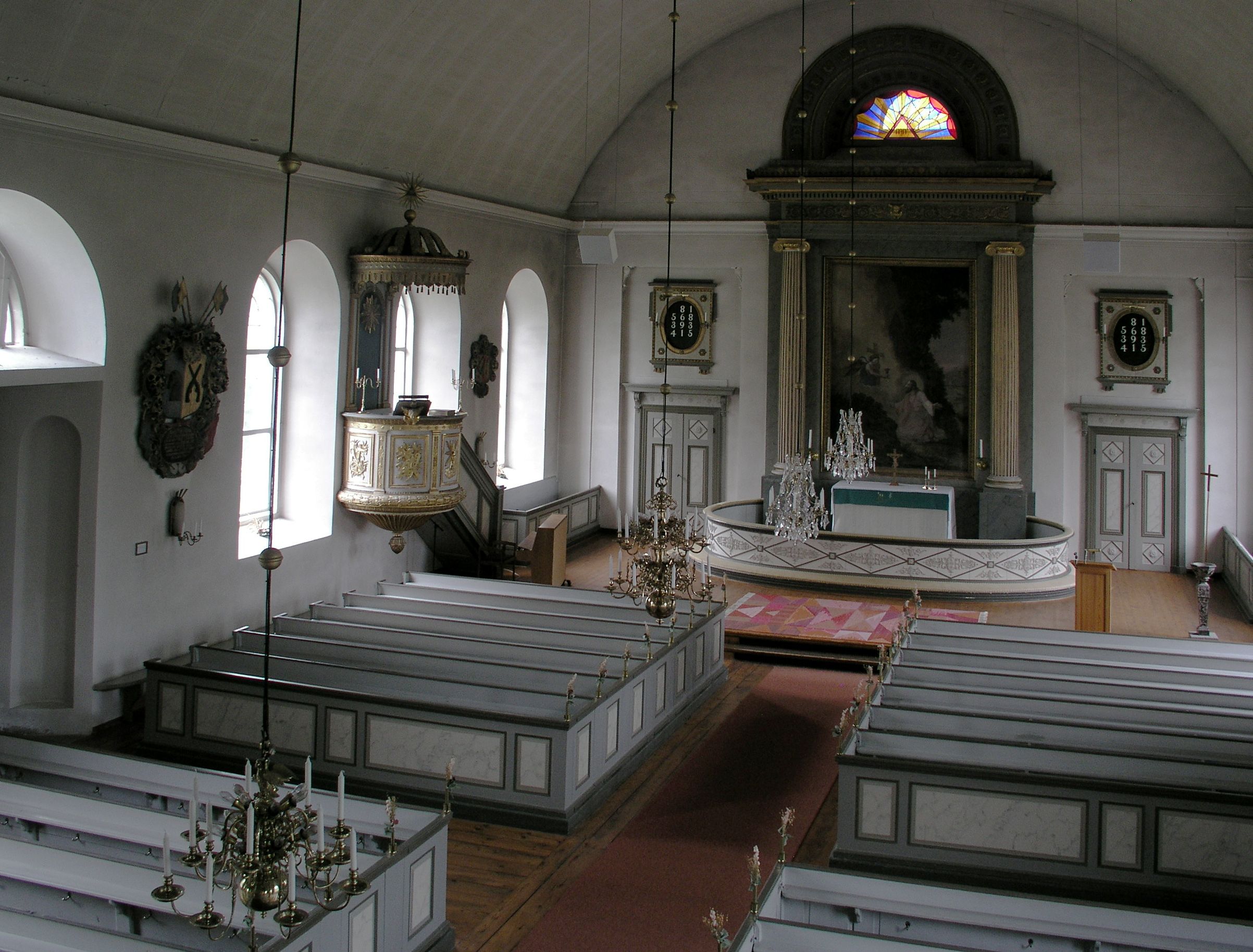 Röks kyrka, Ödeshögs kommun. The photo was taken the 30th of July by Håkan Svensson (Xauxa).